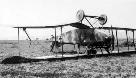 An overturned German AEG C.IV (wrong original description: Rumpler C.Ia) aircraft in the Beirut district, Lebanon.